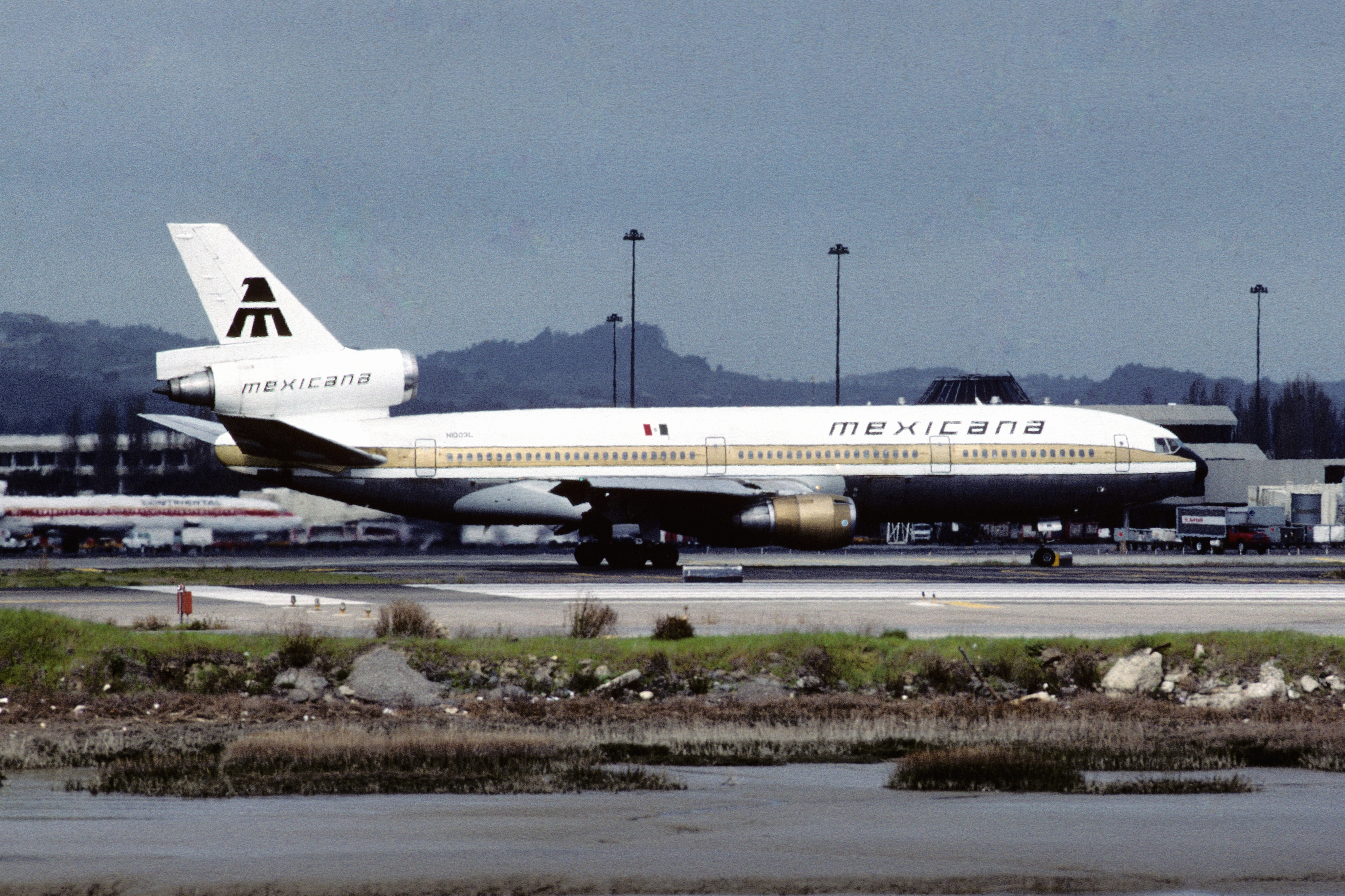 Old Pictures